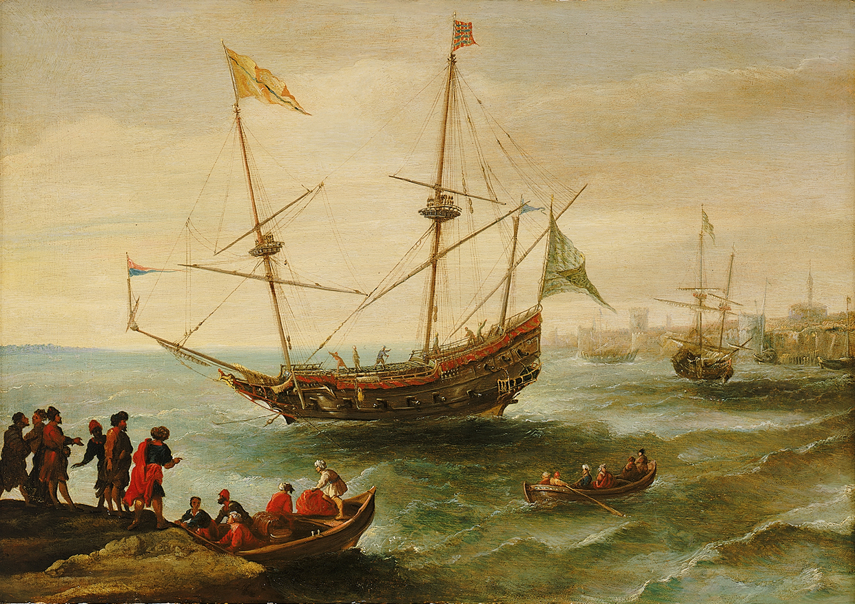 Eertvelt was one of the earliest Flemish marine painters and one of several artists whom collector Eric Palmer was concerned to rediscover and reinstate in the history of the subject. He was very highly regarded in his own day, had his portrait painted by van Dyck in 1632, and specialized in battle scenes. This view represents a commonplace subject for Flemish and Dutch seascape of the period, showing a fascination with the Muslim near East in its evocation of an imaginary North African port